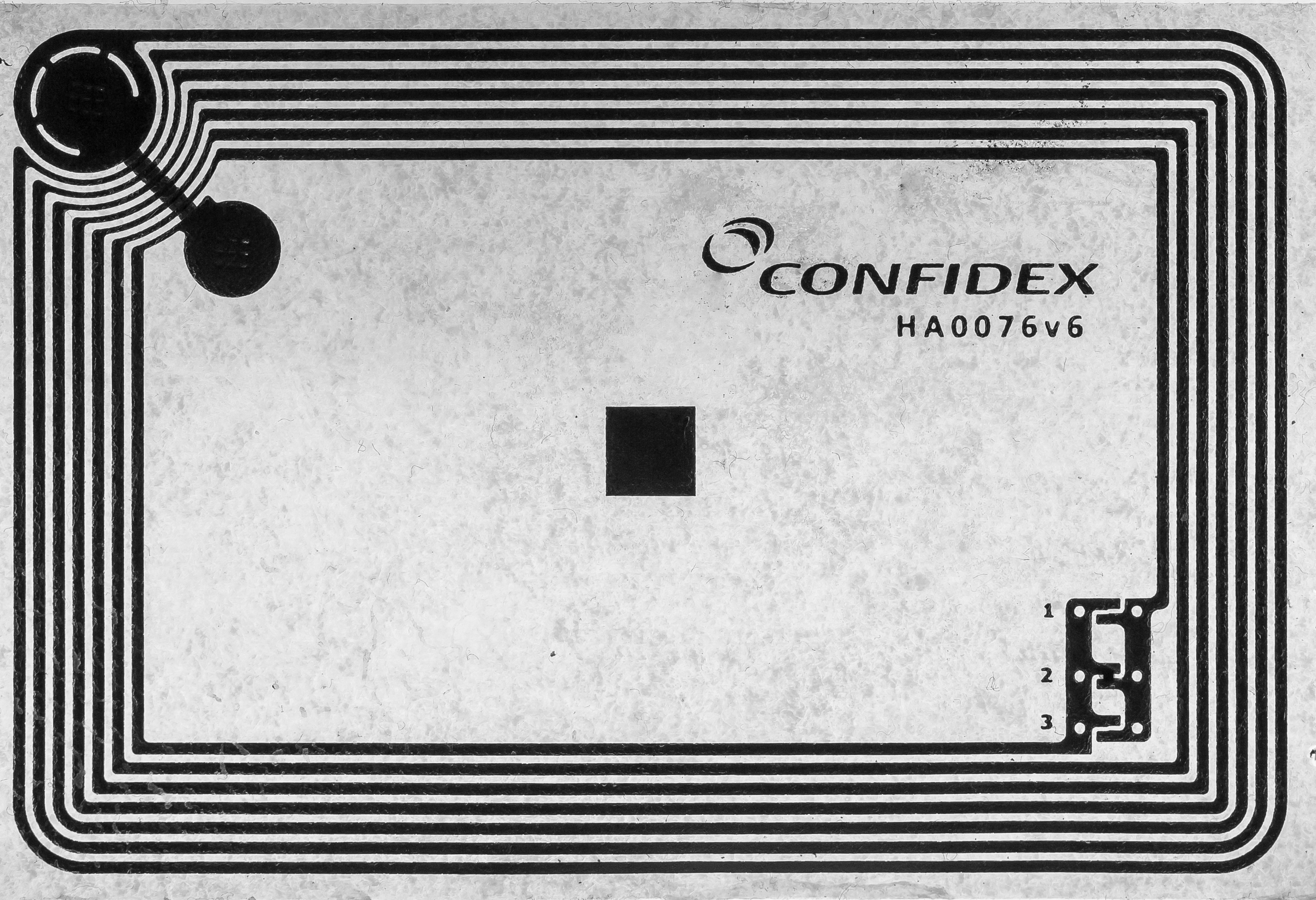 OV-chipkaart (Wegwerpkaart) in transmitted light